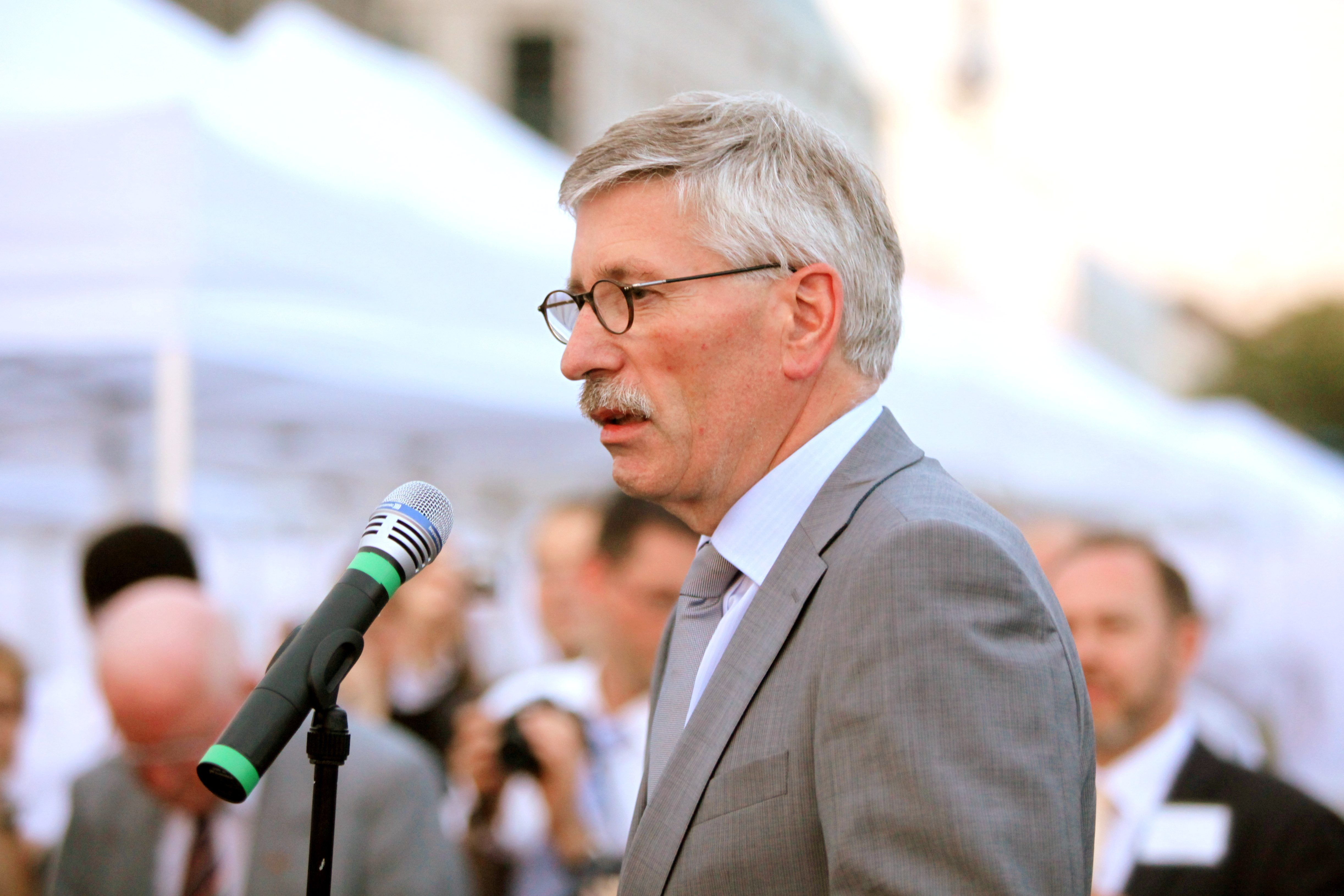 Thilo Sarrazin on July 3rd 2009